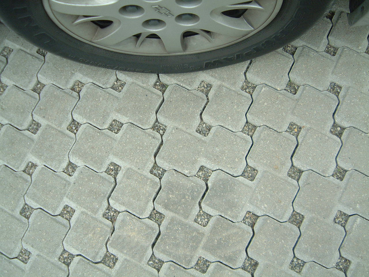 Interlocking stone at Inniskillin Vineyard, Niagara-on-the-Lake, Ontario, Canada